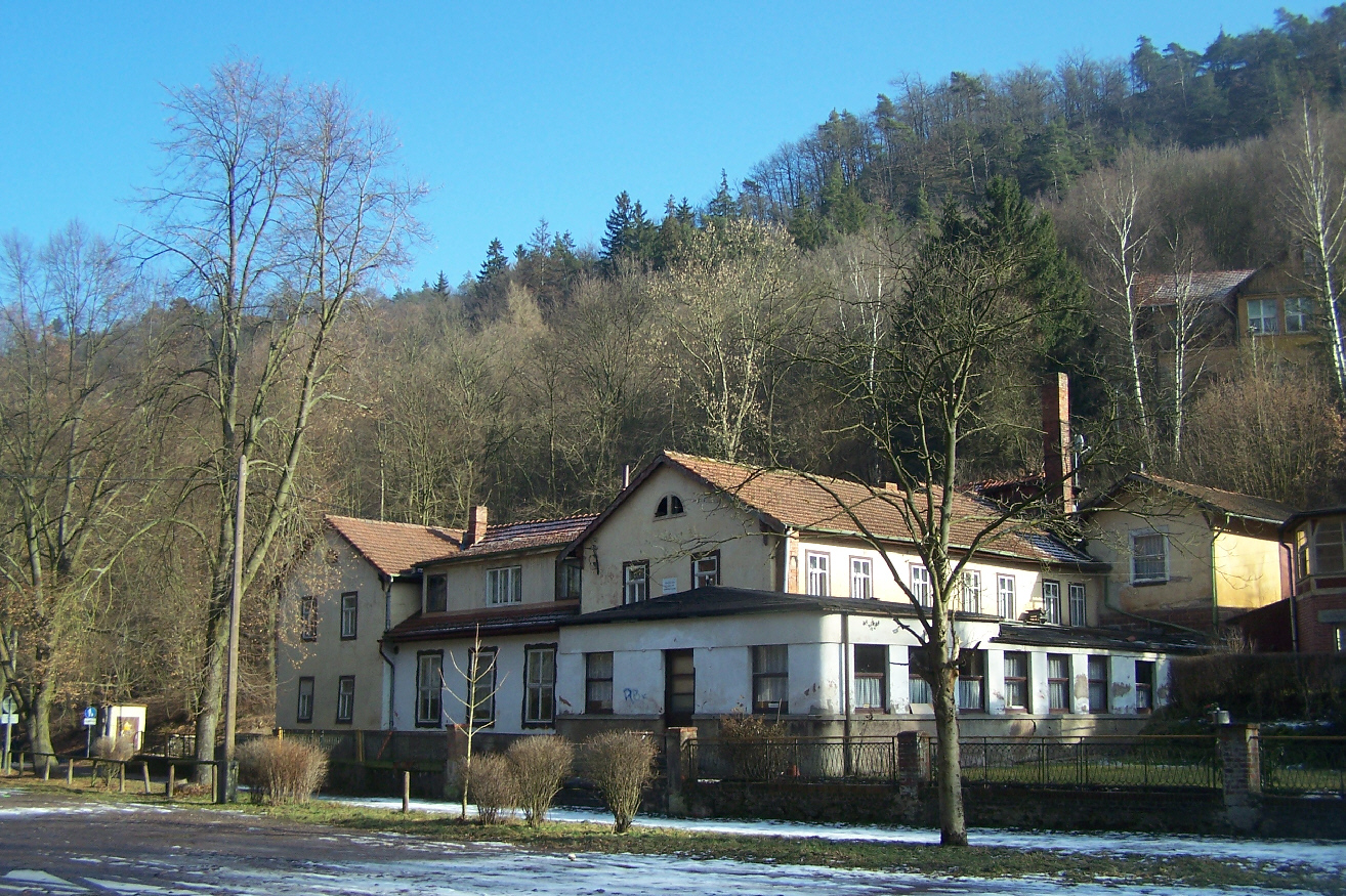 The former old Inn Phantasie in Eisenach, Mariental at Wichmann-Promenade.